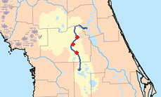 Map of Oklawaha River showing Acuera village sites where 17th century Spanish artifacts have been found.